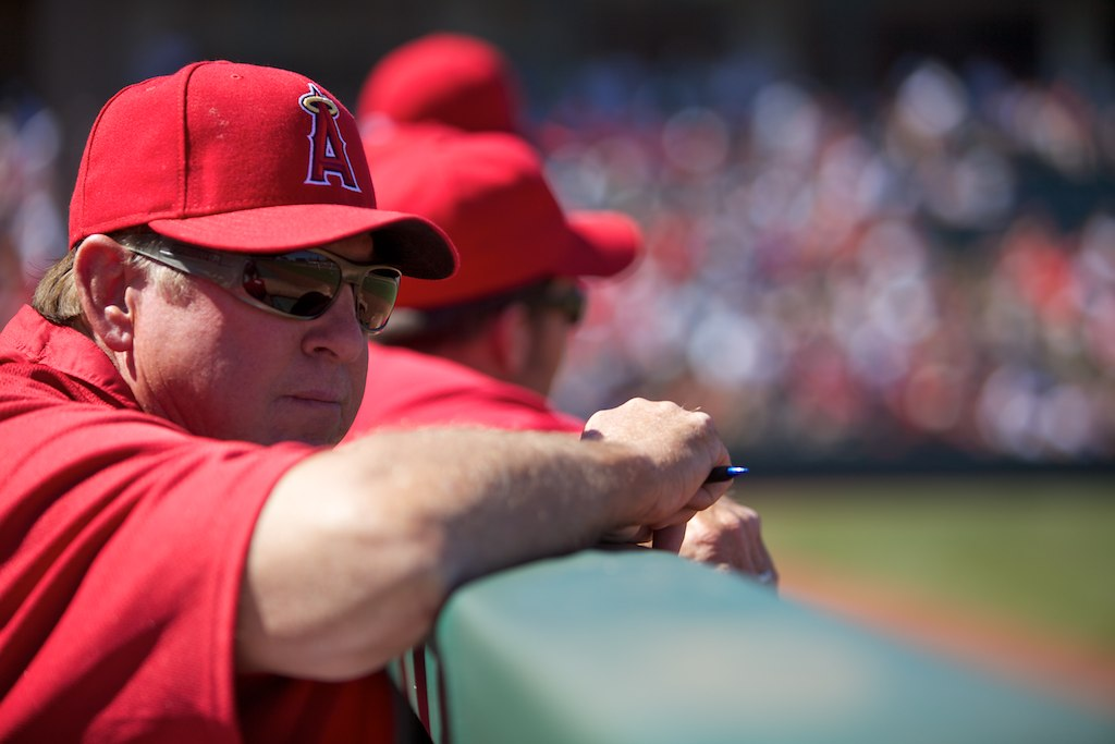 Angel coach Mickey Hatcher watches the game from the dugout. Photo courtesy Dave Dorman.